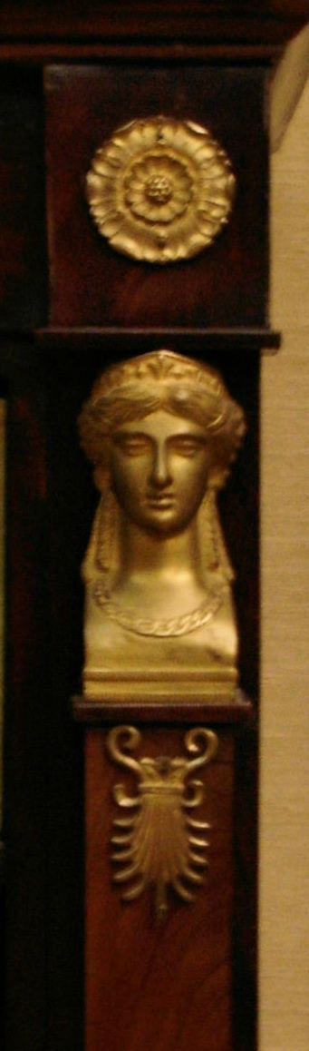 own work